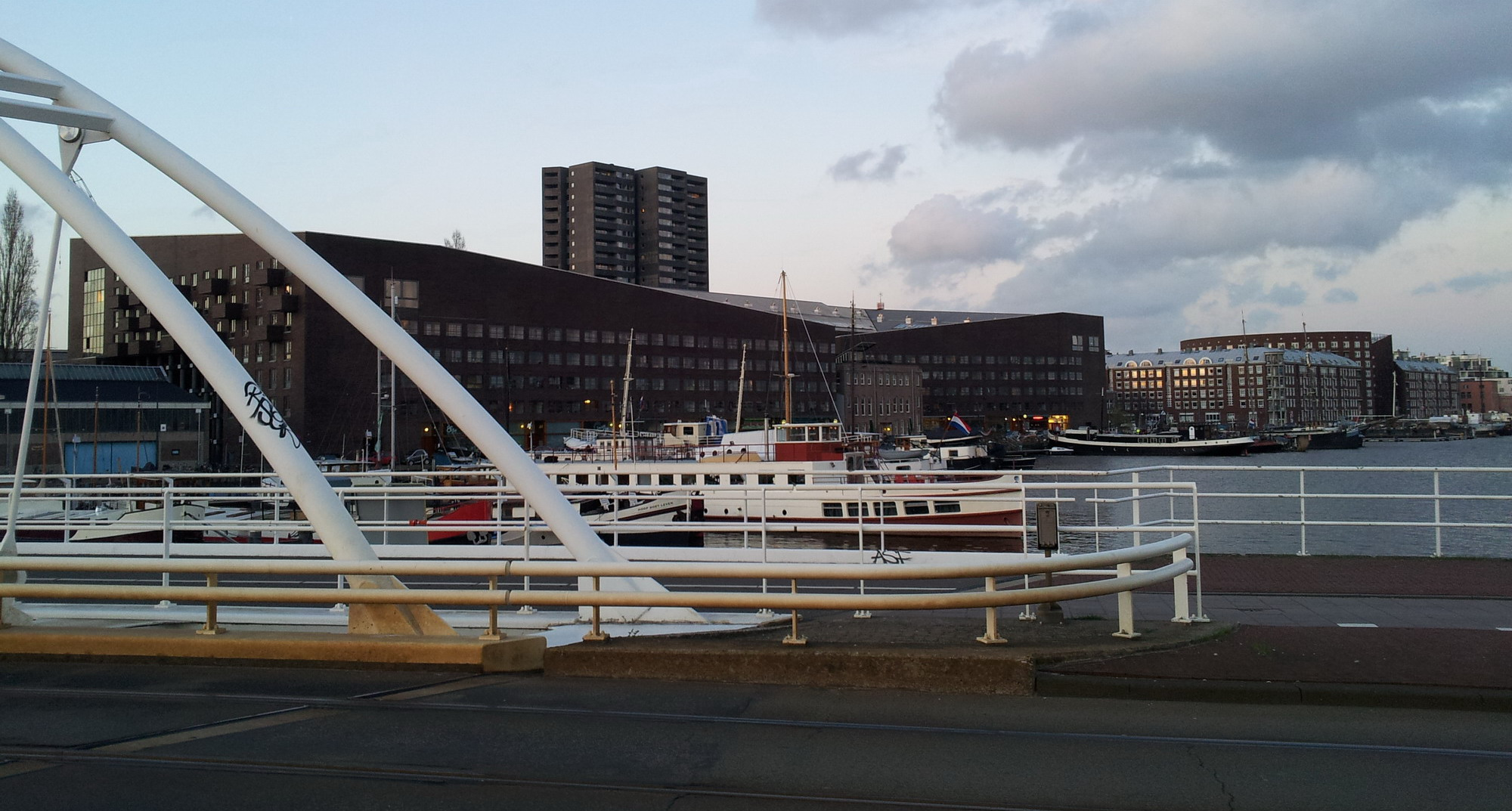 Amsterdam, the Netherlands. View from the bridge ('Verbindingsdam') towards the Northeast of KNSM Island in the Eastern Docklands part of the city. The wide, dark brick building called 'Piraeus' is a design by Hans Kollhoff and Christian Rapp. The black tower ('Sky-Dome') behind it is by Wiel Arets. The large building on the right ('Barcelona') is by Bruno Albert.